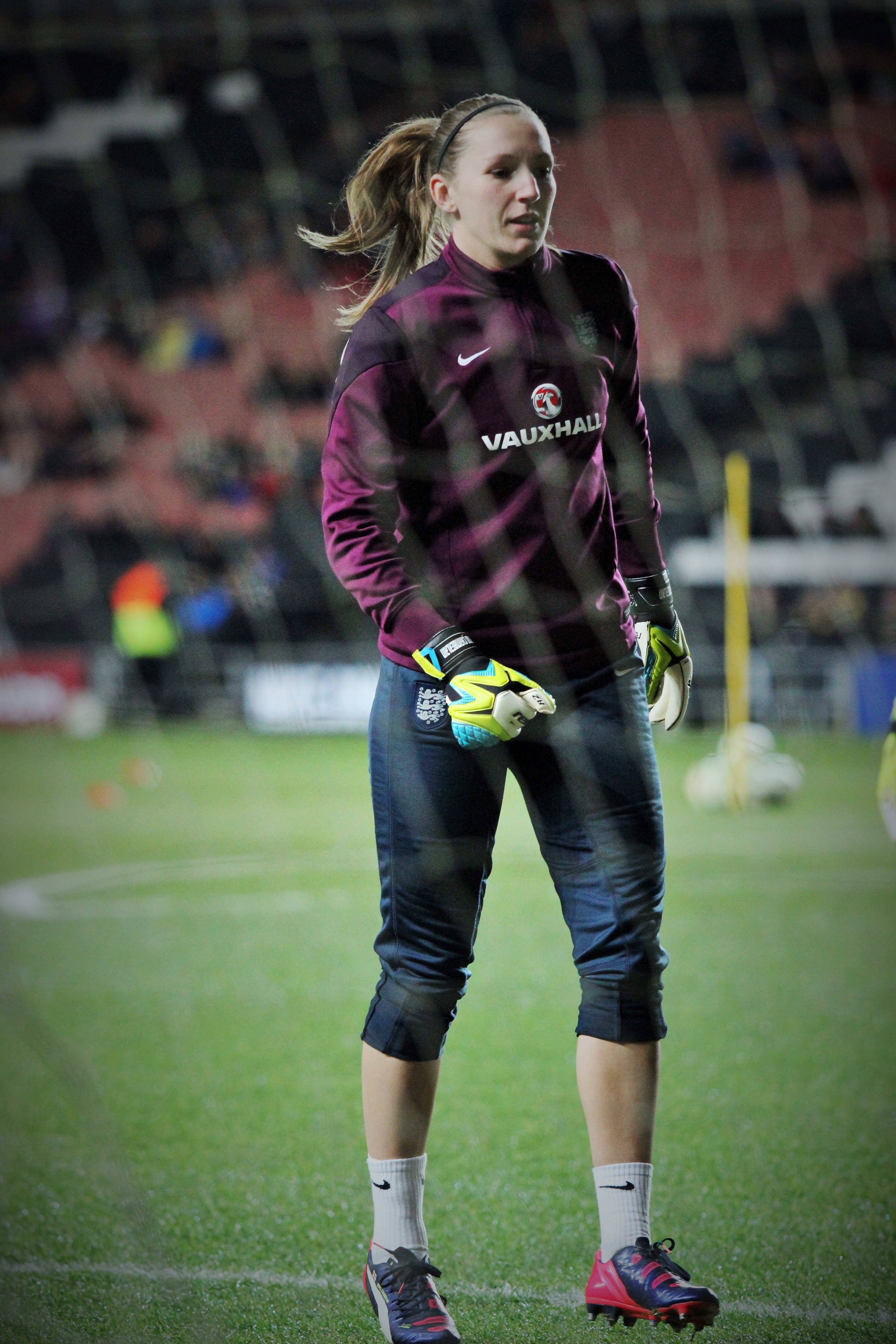 Siobhan Chamberlain of England Women's before the international friendly against USA.